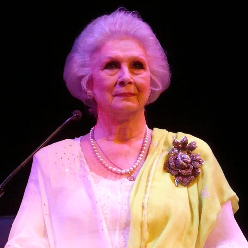 April Ashley at the Southbank Centre, London in February 2009.